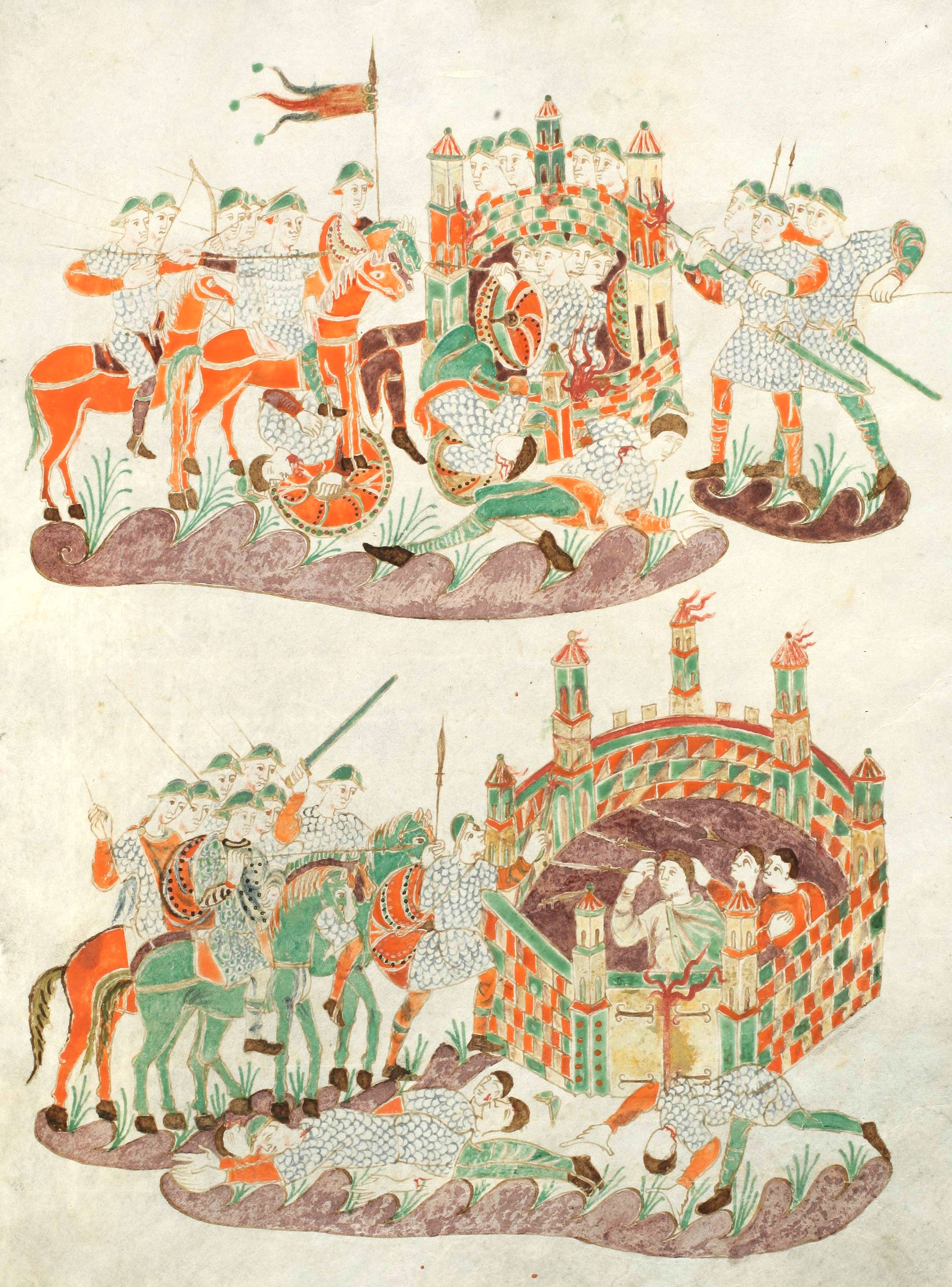 The Hebrews besieging Syrian cities, illustration of Psalm 60